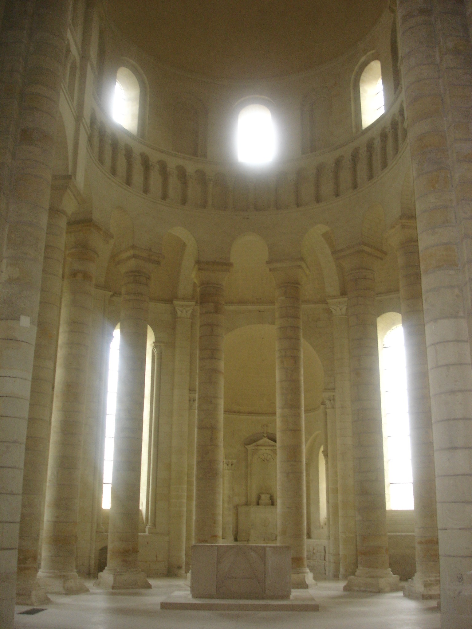 Fontevraud Abbey, quire